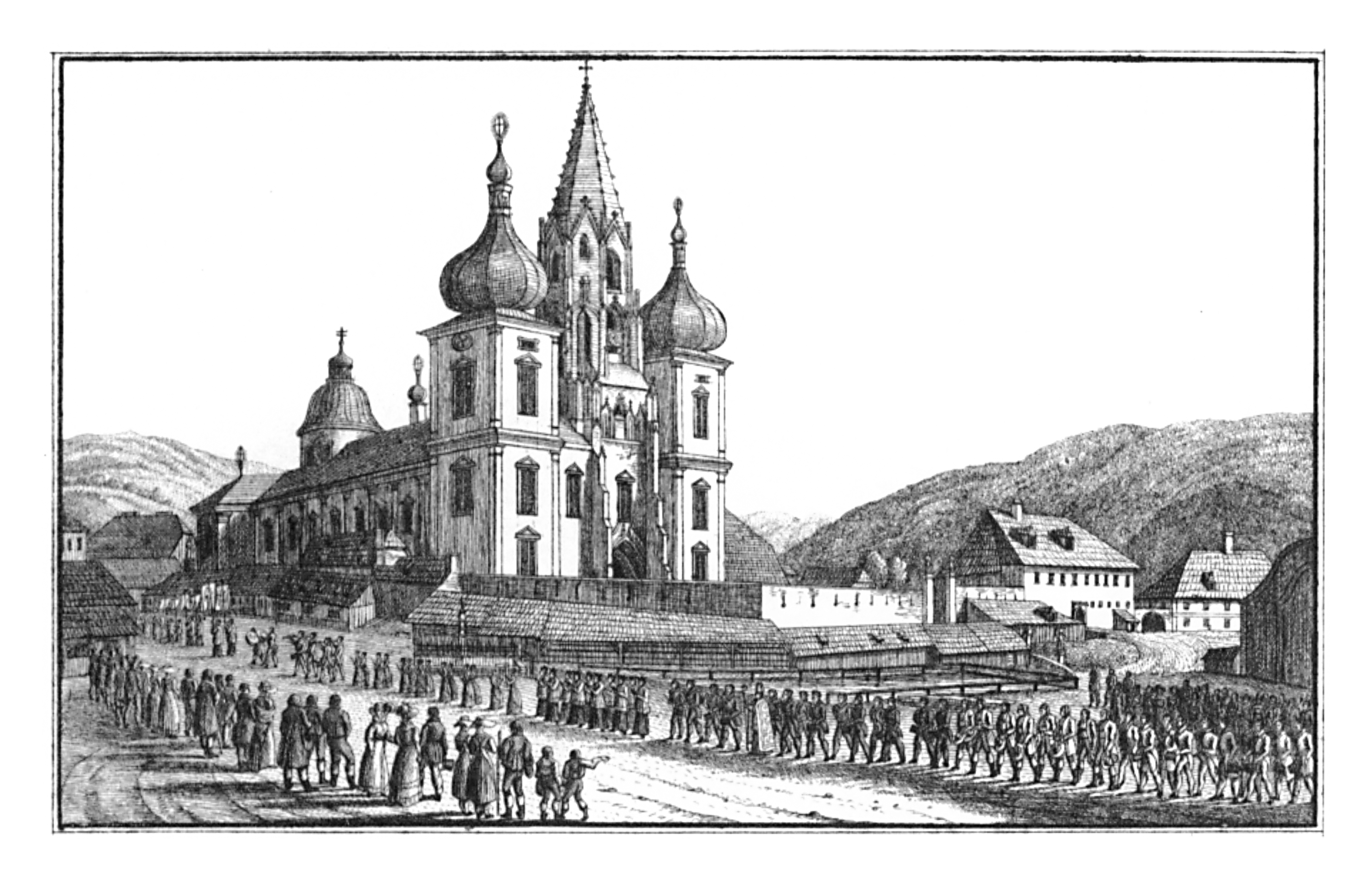 J. F. Kaiser - lithographirte Ansichten der Steyermärkischen Städte, Märkte und Schlösser, Graz 1824-1833 Joseph Franz Kaiser (1786–1859) Alternative names J. F. KaiserDescriptionAustrian printer and editorDate of birth/death 11 March 1786 19 September 1859Location of birth/death Graz (Styria) GrazAuthority control : Q1499963 VIAF: 30629353 ISNI: 0000 0000 3083 0153 LCCN: n87141671 GND: 129880159 NLP: A24960305 WorldCat creator QS:P170,Q1499963 . Scanprojekt Community Projektbudget 2012 This scan or this PDF-file was created within the GLAM-project Bookscanning, supported by Wikimedia Germany and Wikimedia Austria as a part of the community-project to capture books, documents and pictures which are not eligible to copyright or for which the copyright has expired. This document describes or depicts an object which is located in Austria today. Send requests for uncompressed scans to Hubertl. This work is in the public domain in its country of origin and other countries and areas where the copyright term is the author's life plus 100 years or less. You must also include a United States public domain tag to indicate why this work is in the public domain in the United States. This file has been identified as being free of known restrictions under copyright law, including all related and neighboring rights.